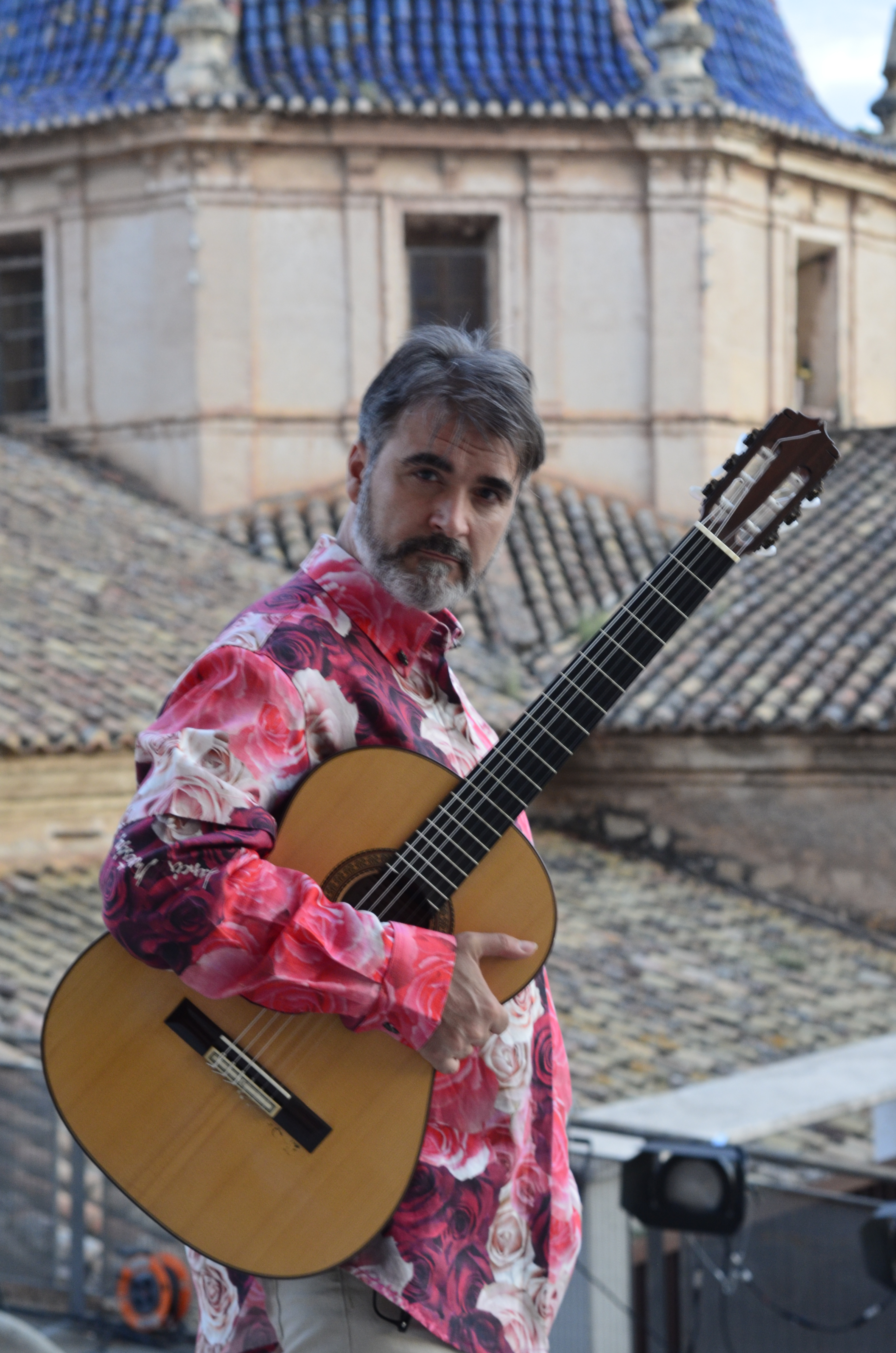 El guitarrista Rafael Serrallet posaba antes del primer concierto que se llevó a cabo después del confinamiento en Valencia por el COVID-19 con un espectáculo titulado El despertar de las Artes.